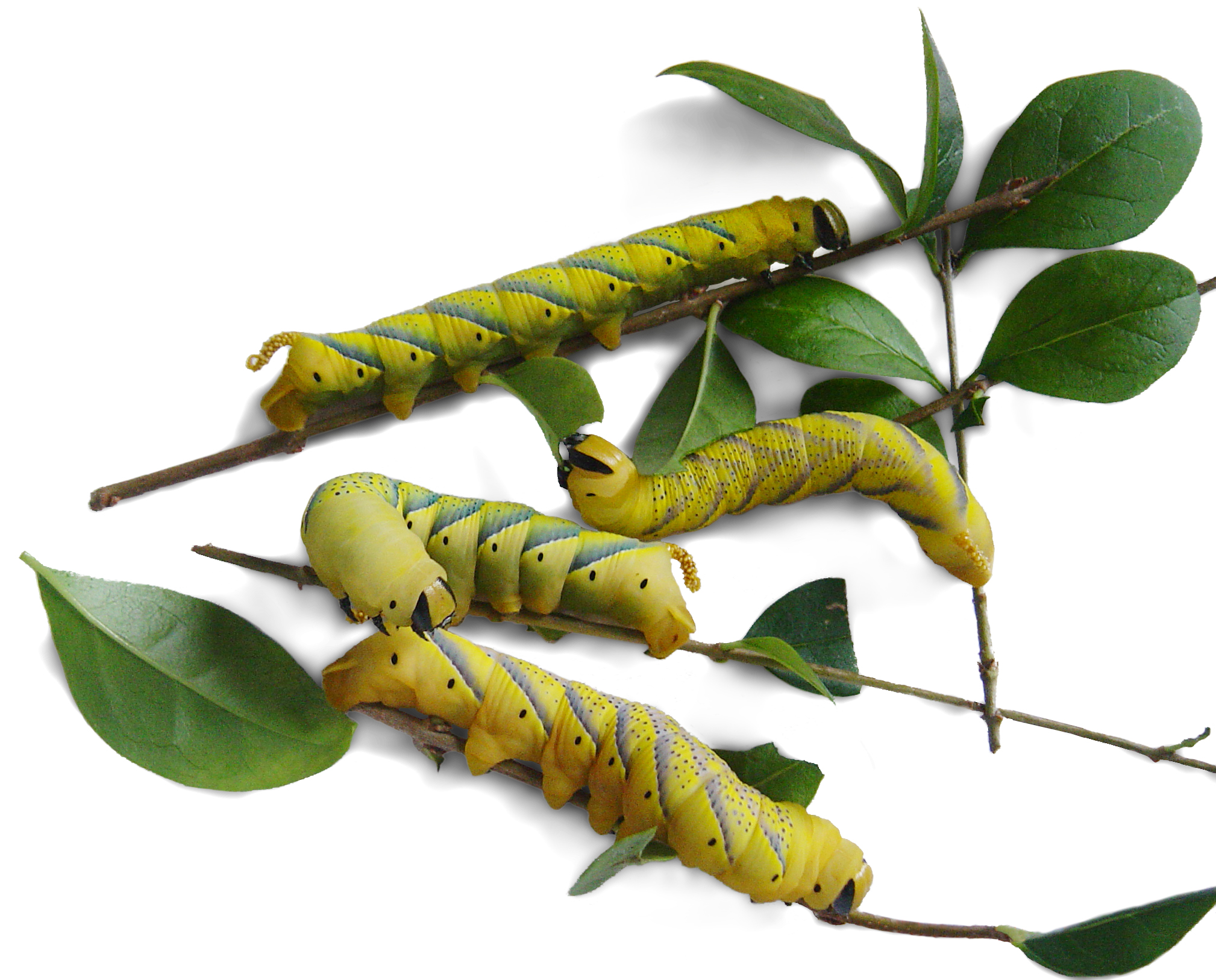 Acherontia atropos (Linnaeus, 1758) 4 Deaths-head Hawk-moth larvae, about 2 weeks old. Source - j9dw